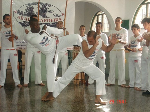 Standing sweep